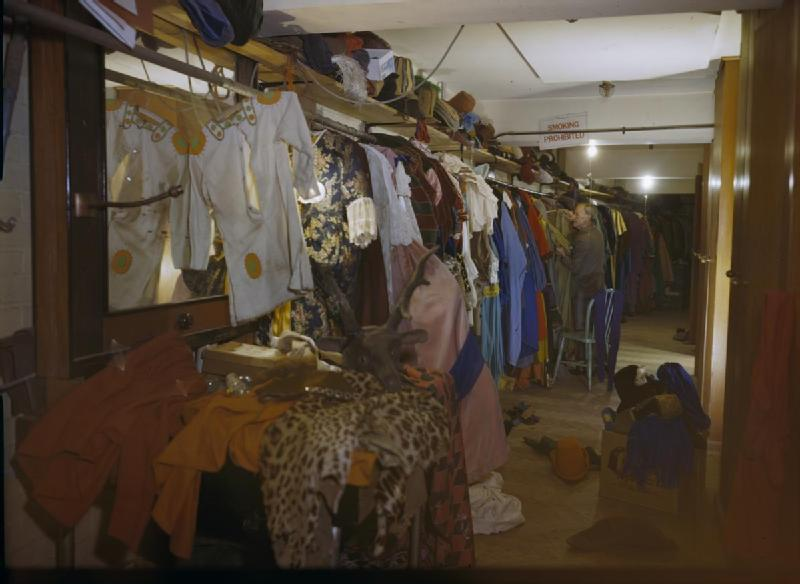 Scenes in Stratford-on-avon, England, 1943 The theatre wardrobe department of the Shakespeare Memorial Theatre, Stratford-on-Avon.